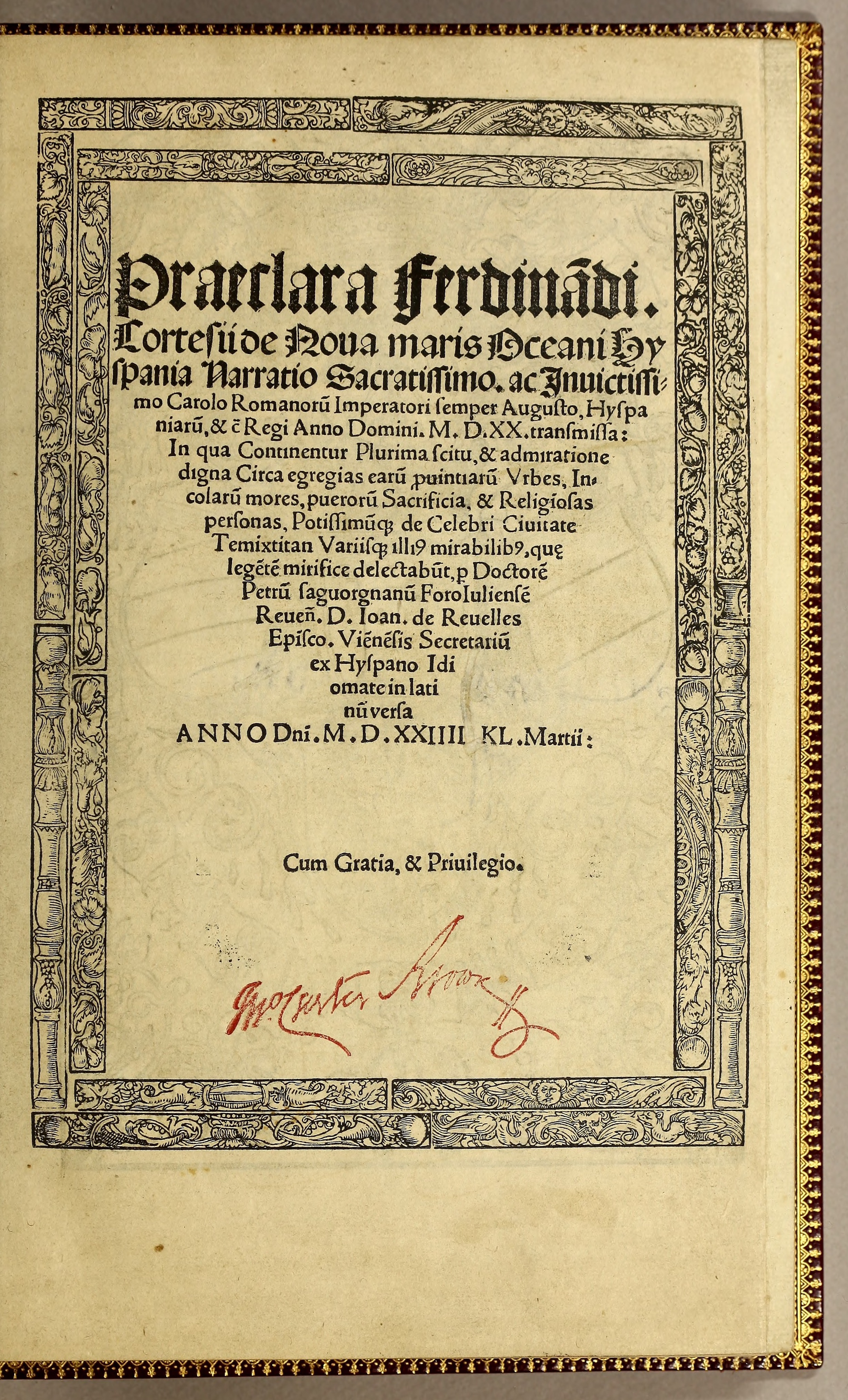 Title page of "The Splendid Narrative of Ferdinand Cortes About the New Spain of the Sea and Ocean Transmitted to the Most Sacred and Invincible, Always August Charles Emperor of the Romans, King of the Spaniards in the Year of the Lord 1520: In Which is Contained Many Things Worthy of Knowledge and Admiration About the Excellent Cities of Their Provinces…Above All About the Famous City Temixtitan and Its Diverse Wonders, Which Will Wondrously Please the Reader" This title page is from the first Latin edition of Cortes’s second letter. Dated October 30, 1520, the letter was translated from Spanish into Latin by Petrus Savorgnanus and printed in Nuremberg, Germany, in 1524.